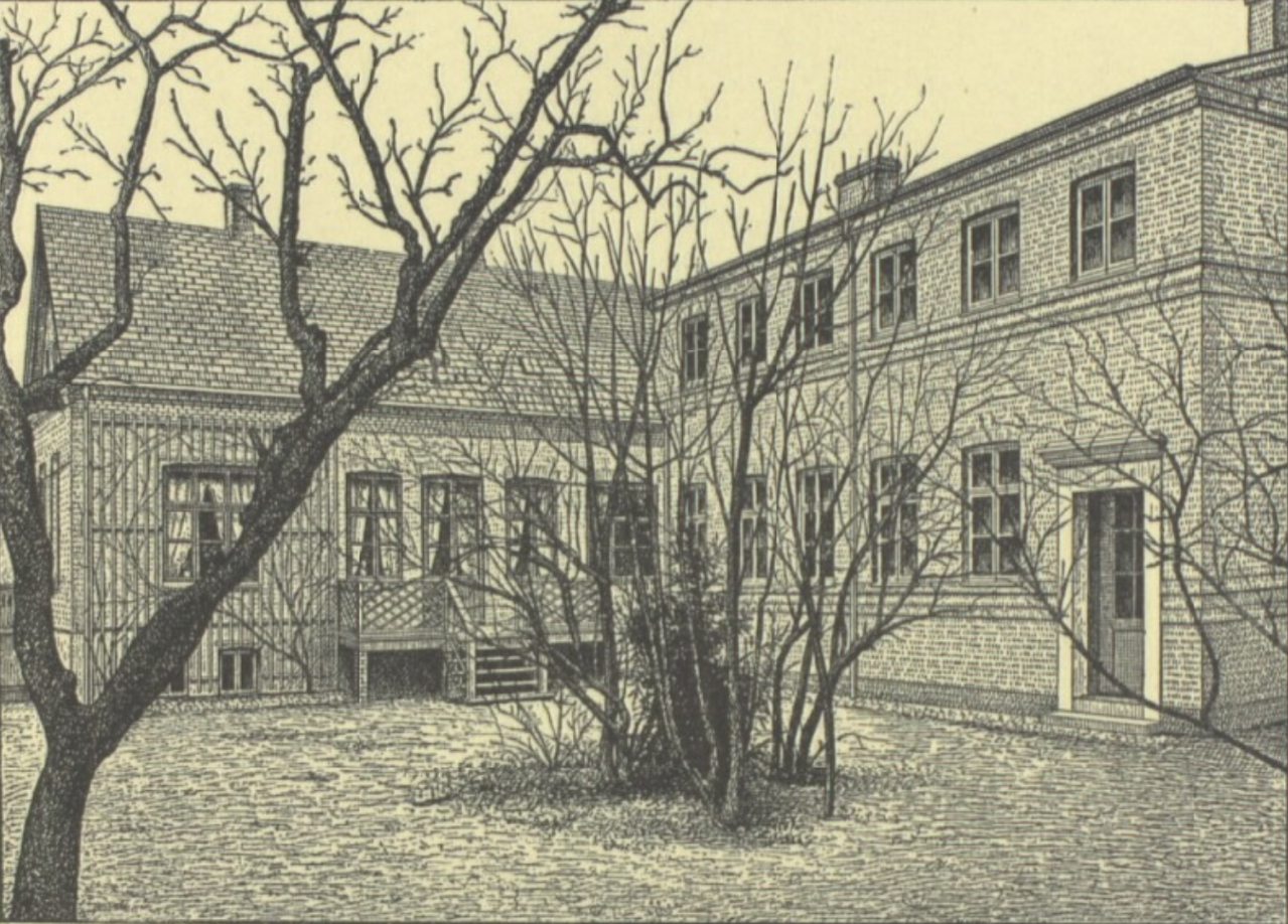 Anstalten for svagt begavede døvstumme in Meinungsgade in Copenhagen, Denmark